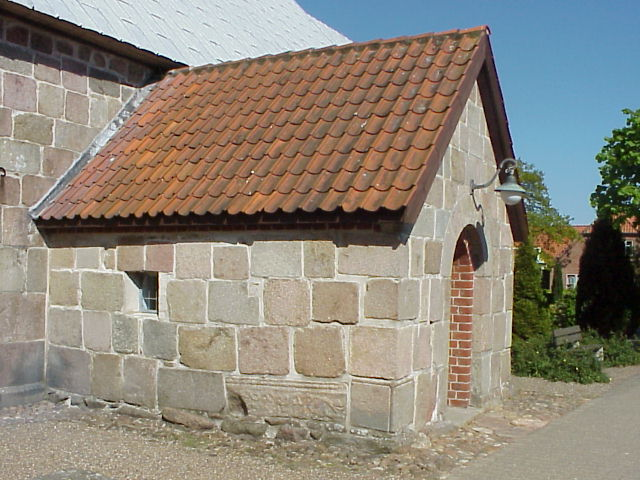 Church porch at Faster Kirke, Denmark